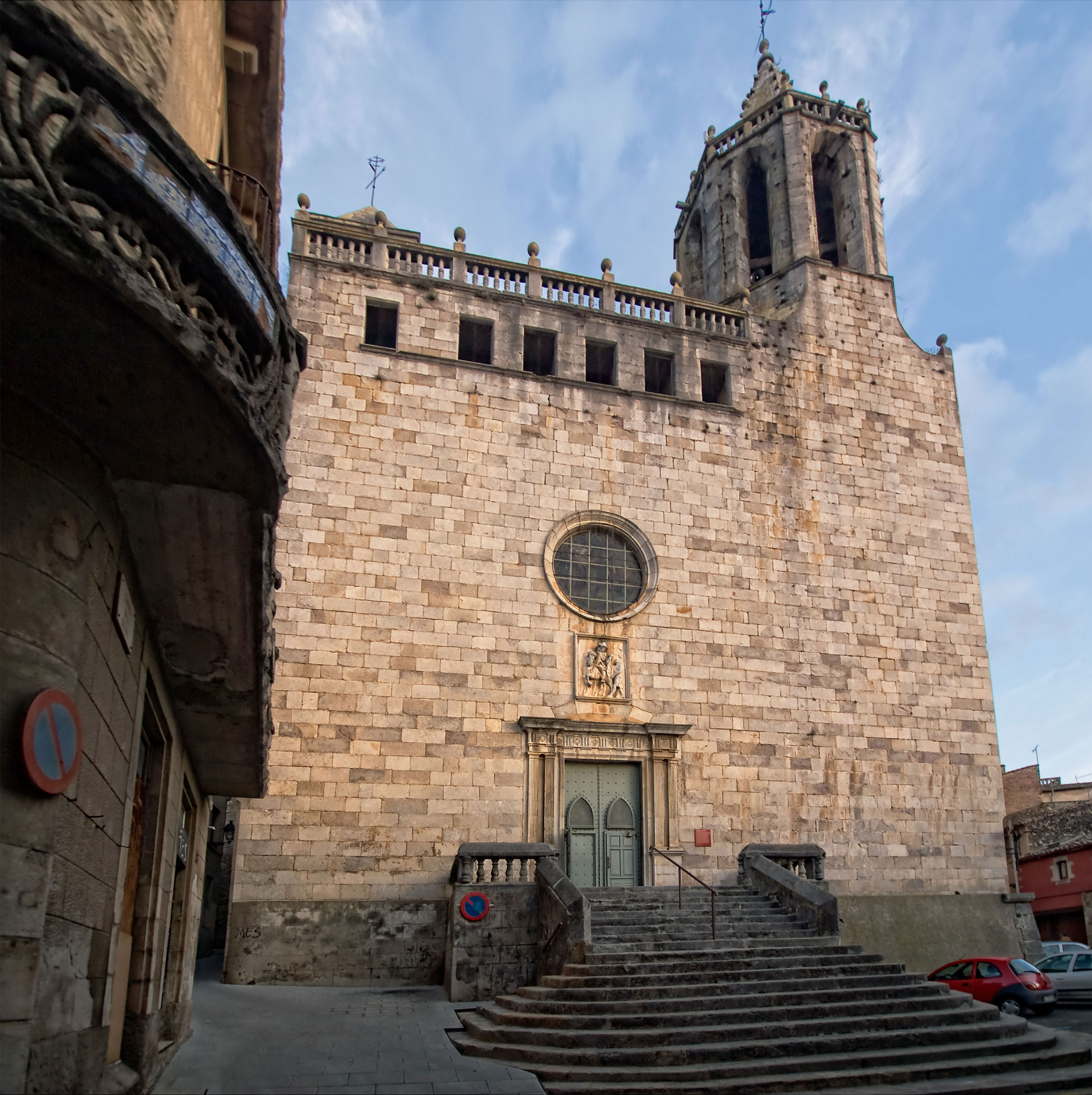 Sant Martí Church (Cassà de la Selva, Catalonia, Spain)